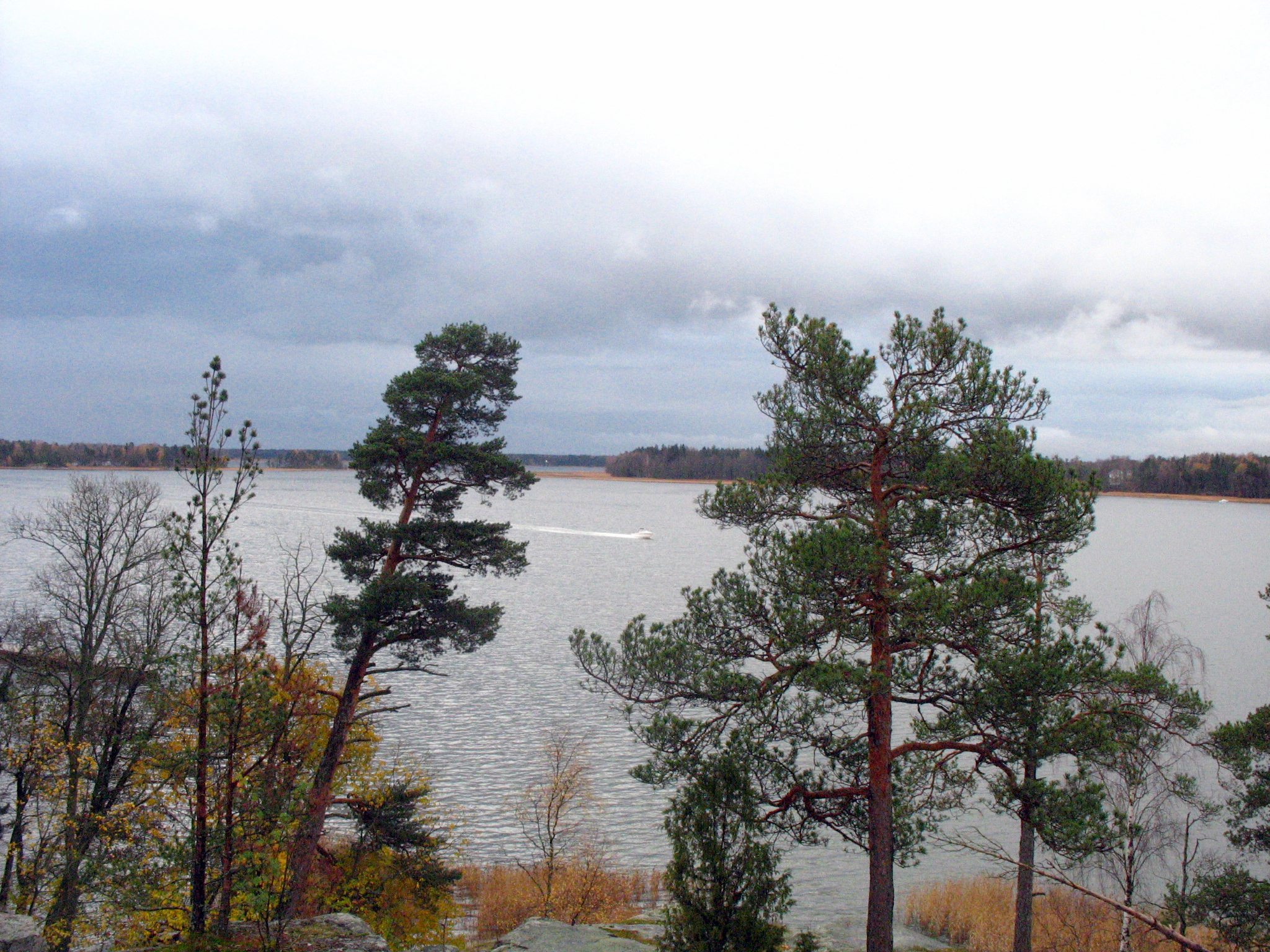 Espoonlahti Bay, looking towards Porkkala in Kirkkonummi.